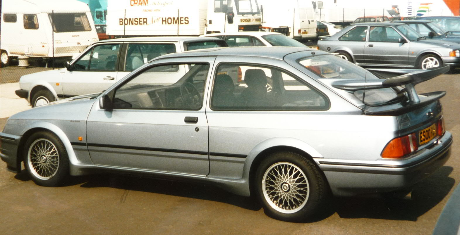 Ford Sierra RS500 Cosworth with British registration plate starting E500... at the paddock car park, Donington Park race circuit in Leicestershire, England in 1988